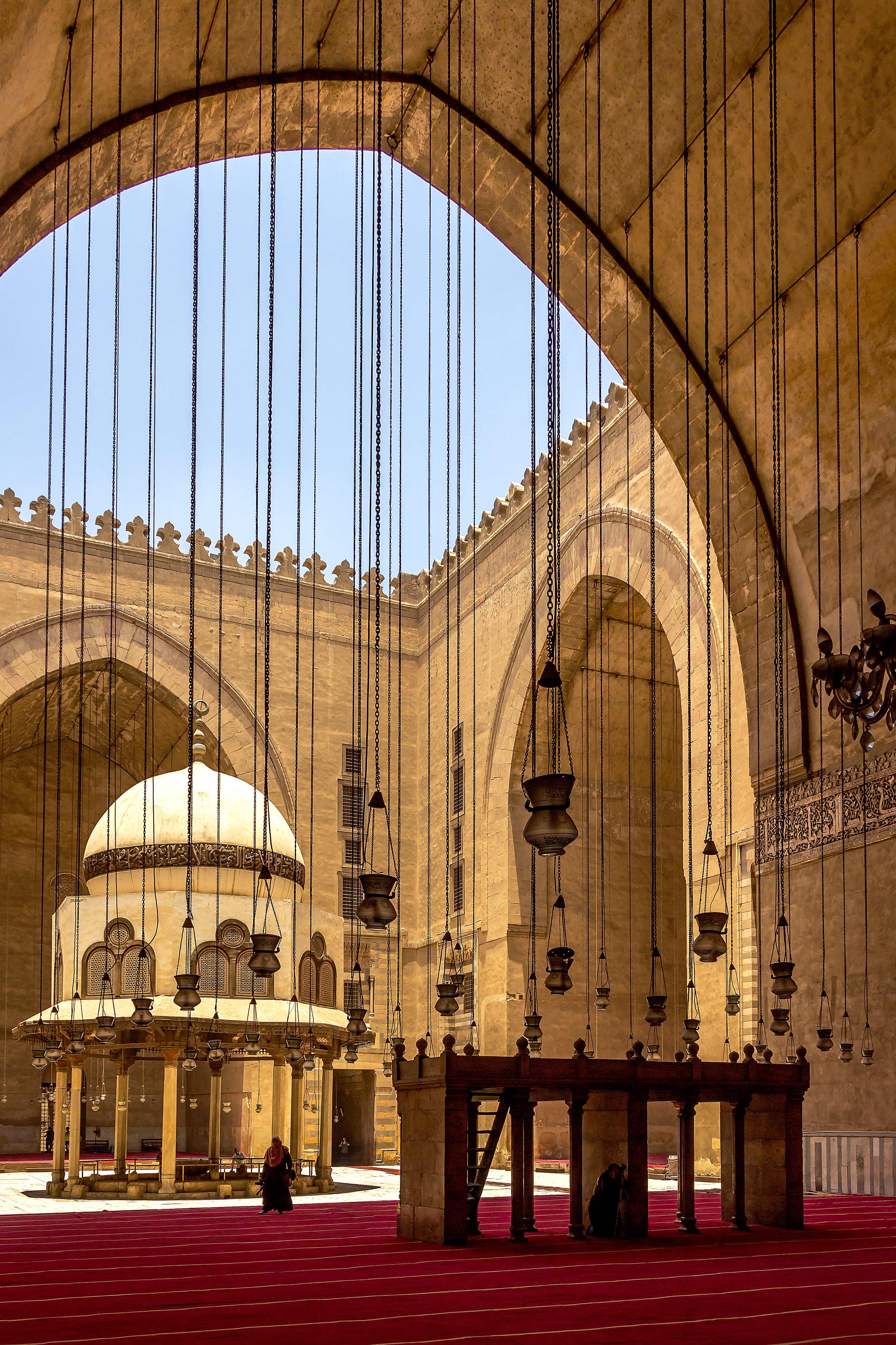 The Mosque-Madrassa of Sultan Hassan is a monumental mosque and madrassa located in the historic district of Cairo, Egypt.